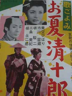 Japanese movie poster for 1954 Japanese film Onatsu and Seijuro (歌ごよみ お夏清十郎 Utagoyomi Onatsu Seijūrō).